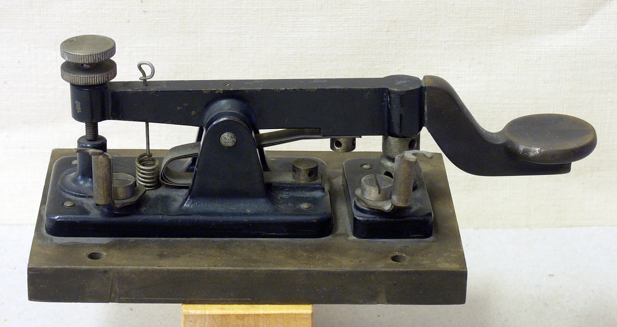 Early Morse telegraph key on display in the Schulhistorische Sammlung (School Historical Museum), Bremerhaven, Germany.